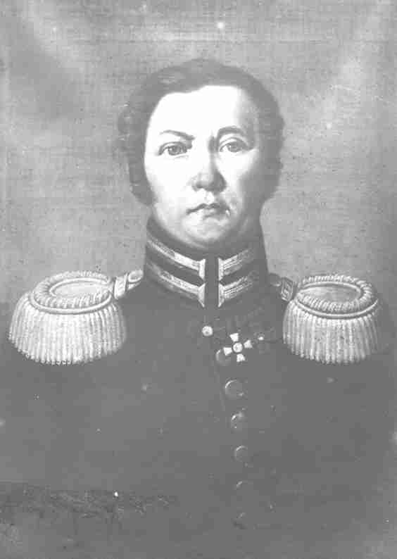 Freyman, Otto Ottovich (1788—1858) engineer lieutenant general.